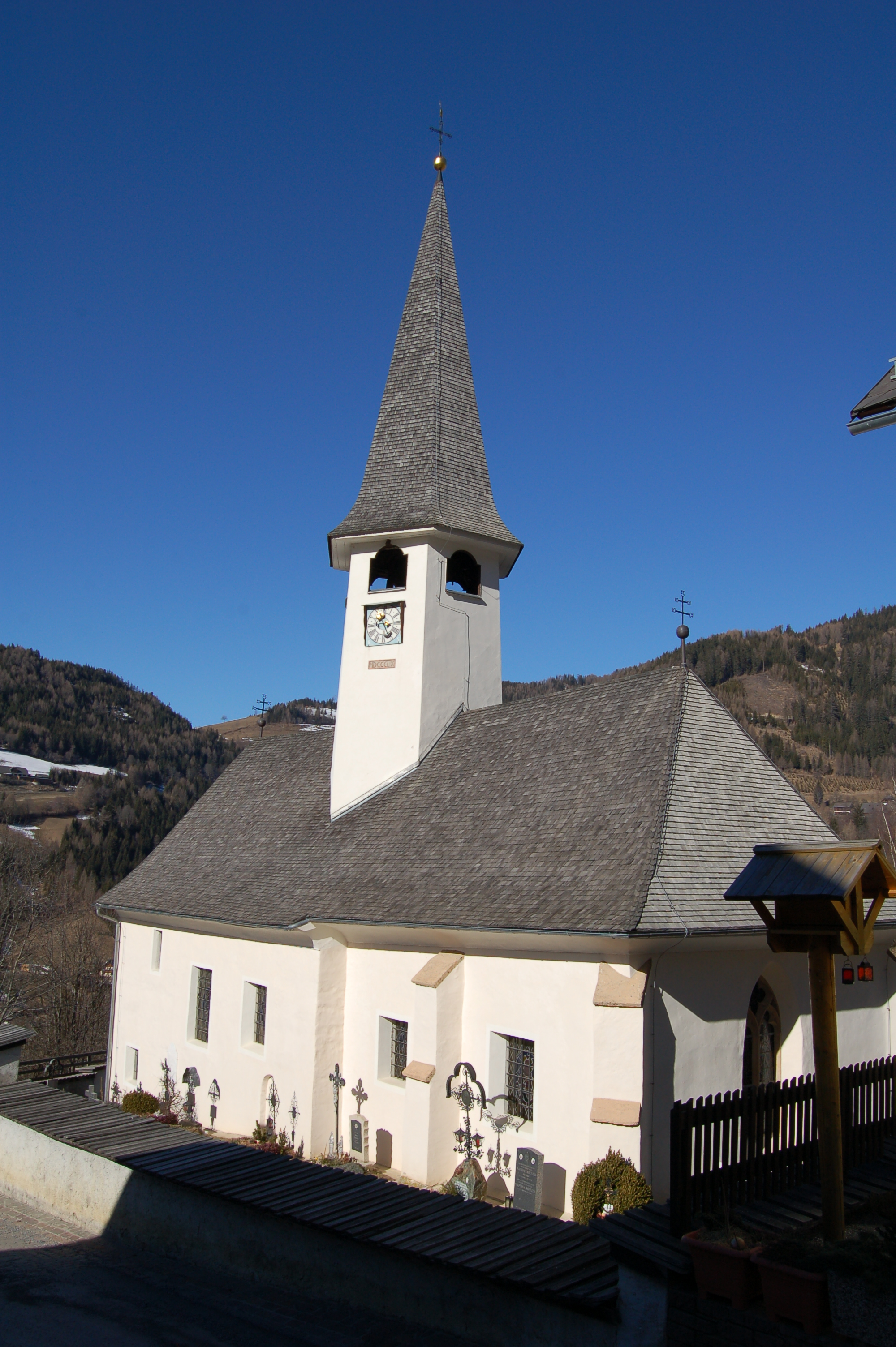 Schönberg-Lachtal in Styria, Austria, parisch church St. Ulrich